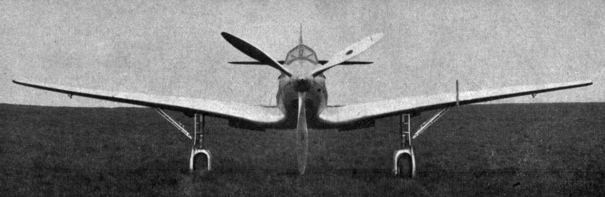 Nieuport 161 photo from L'Aerophile May 1938